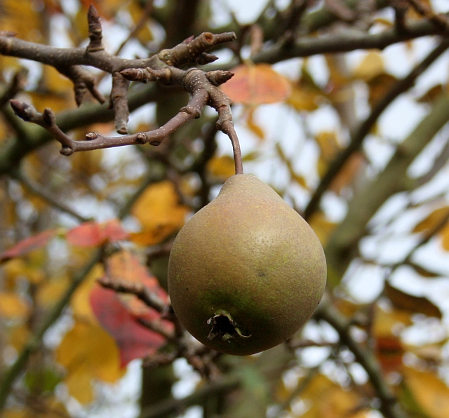 Worcester Black Pear. On a tree at Hartlebury Castle 1559133. The tree bearing fruit appears on the Worcestershire county coat of arms. The pear itself appears on the Worcester city coat of arms. The fruit is very hard and if stored carefully will keep right through to the following spring. It needs to be cooked slowly.